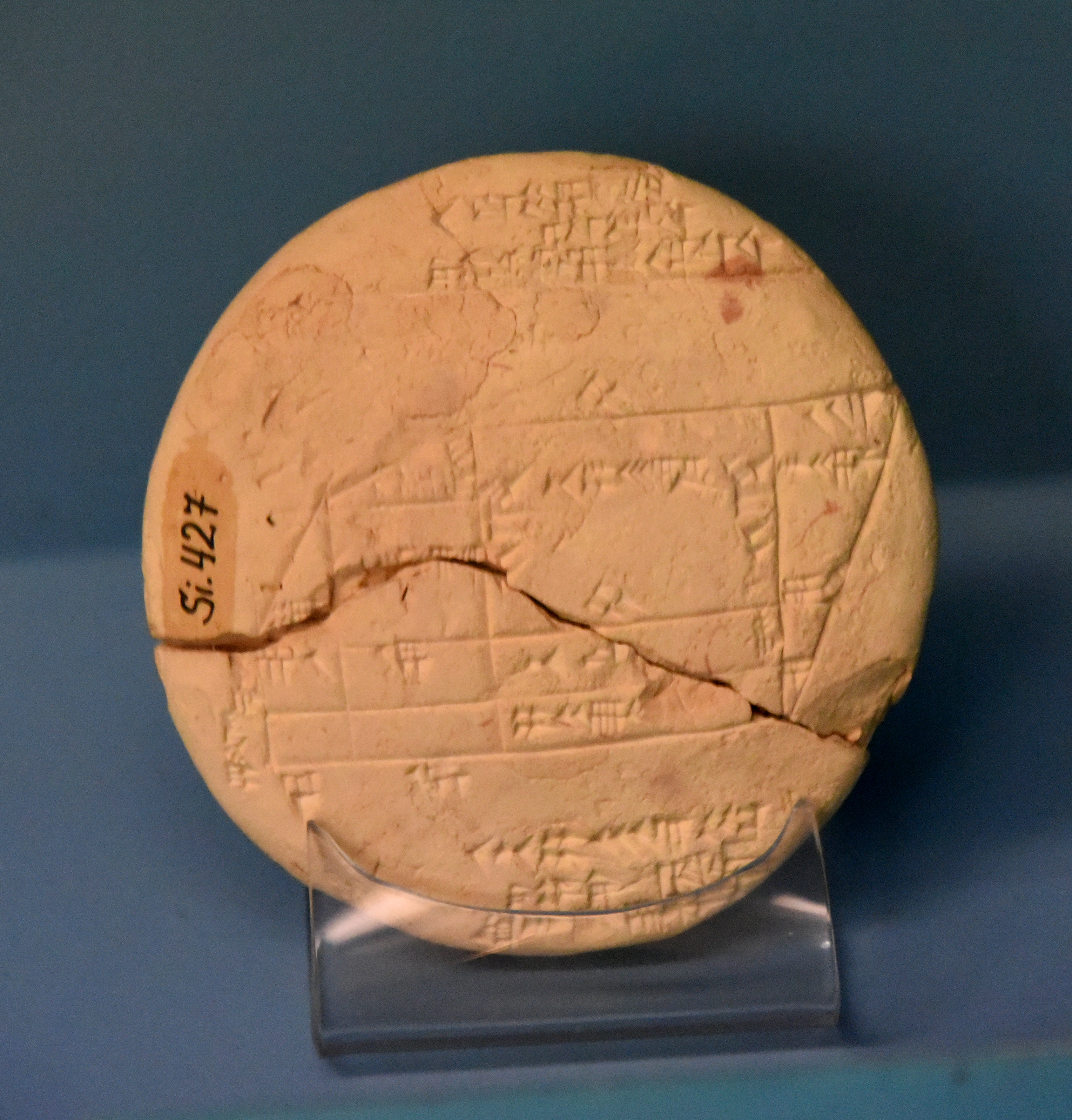 A cadastre text written in Akkadian. Old-Babylonian Period, 18th century BCE. Terracotta tablet from Sippar (modern-day Tel Abu Habba), Southern Mesopotamia, Iraq. Ancient Orient Museum, Istanbul.